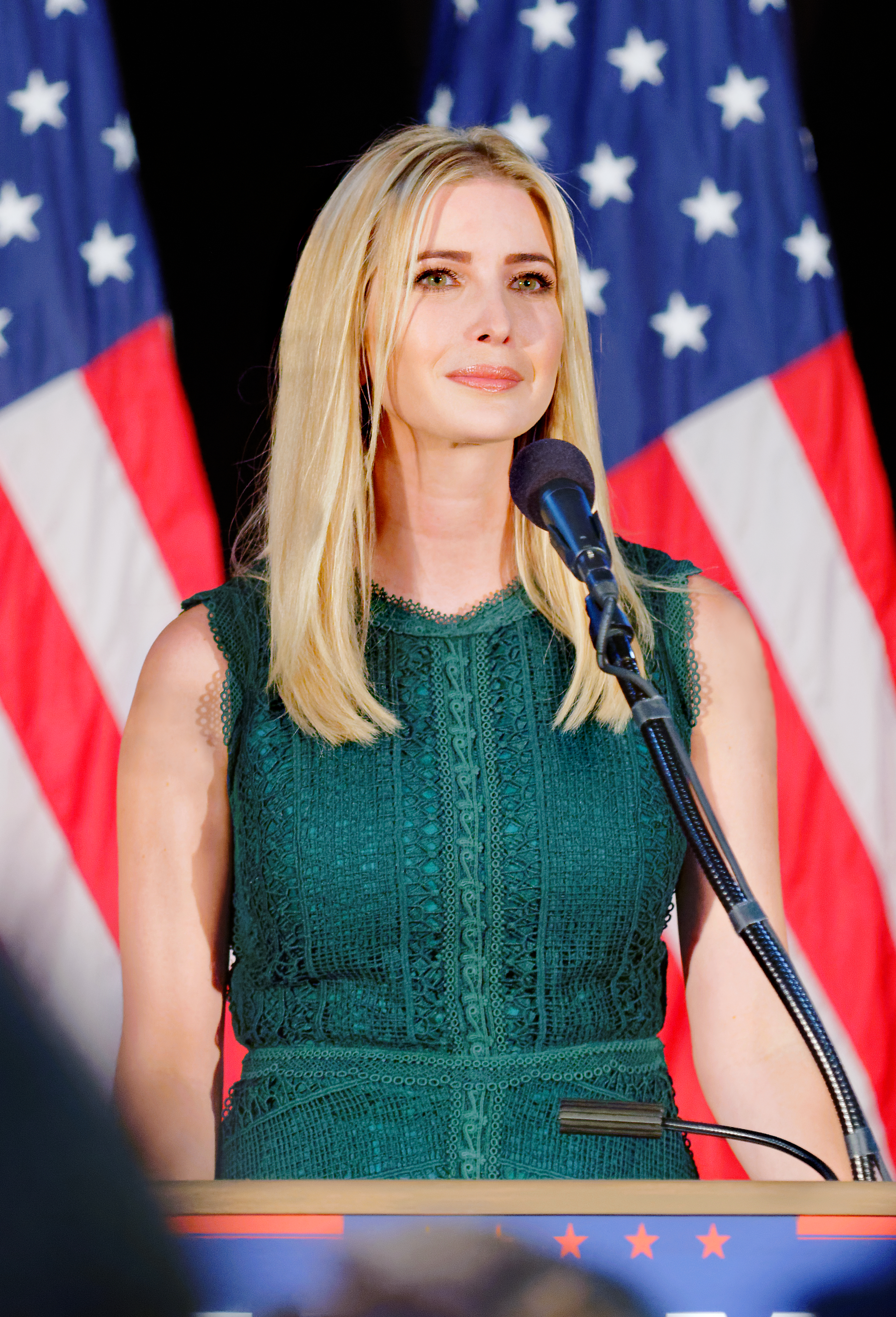 ASTON, Pa. Donald Trump unveils child-care policy influenced by Ivanka Trump.